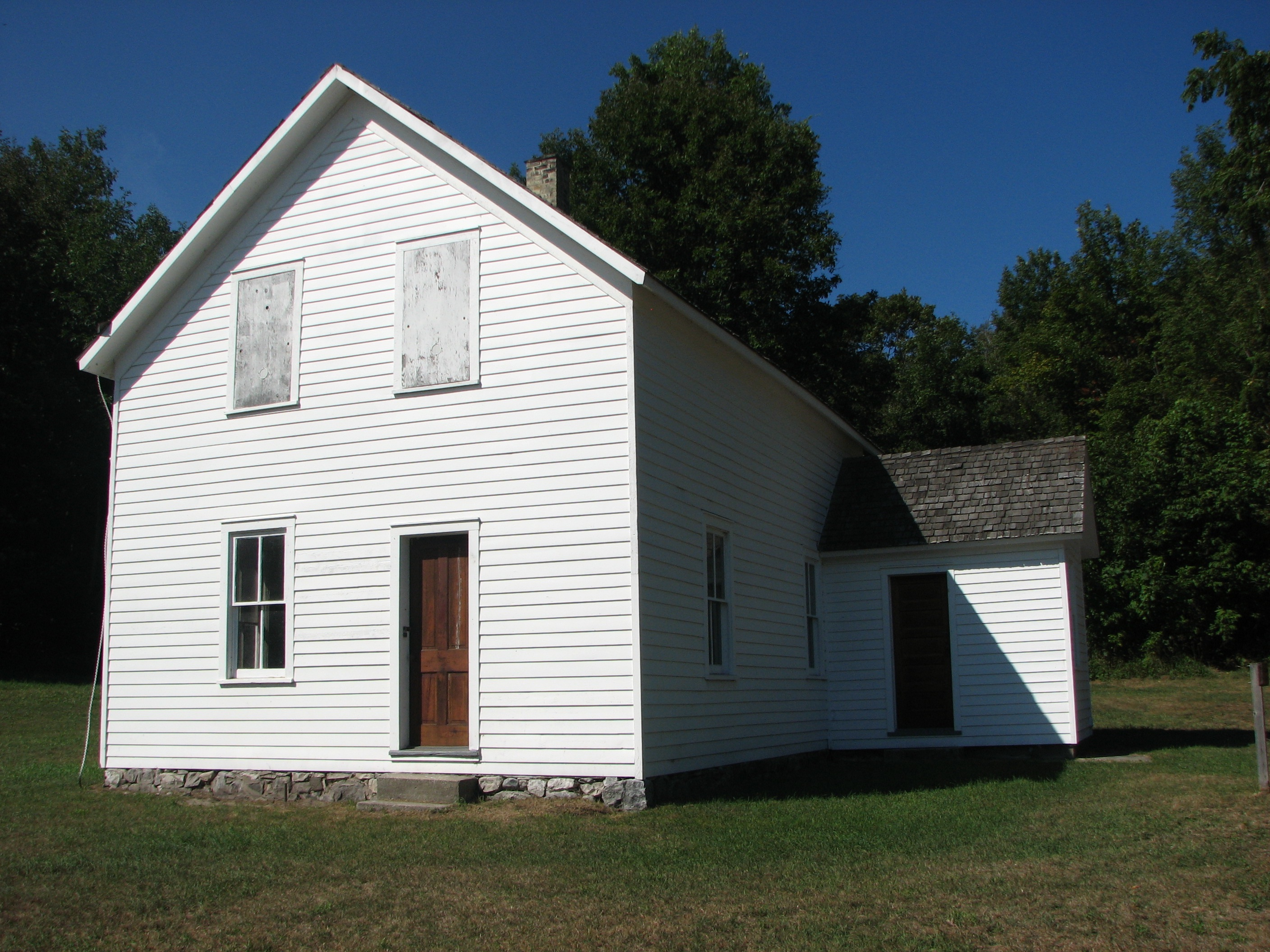 A front view of the Hutzler farmhouse.